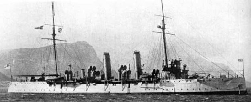 HMS Pegasus (1897)